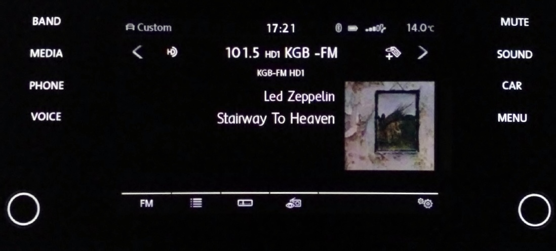 2017 VW Golf entertainment system showing KGB-FM 101.5 HD radio metadata including Artist Experience